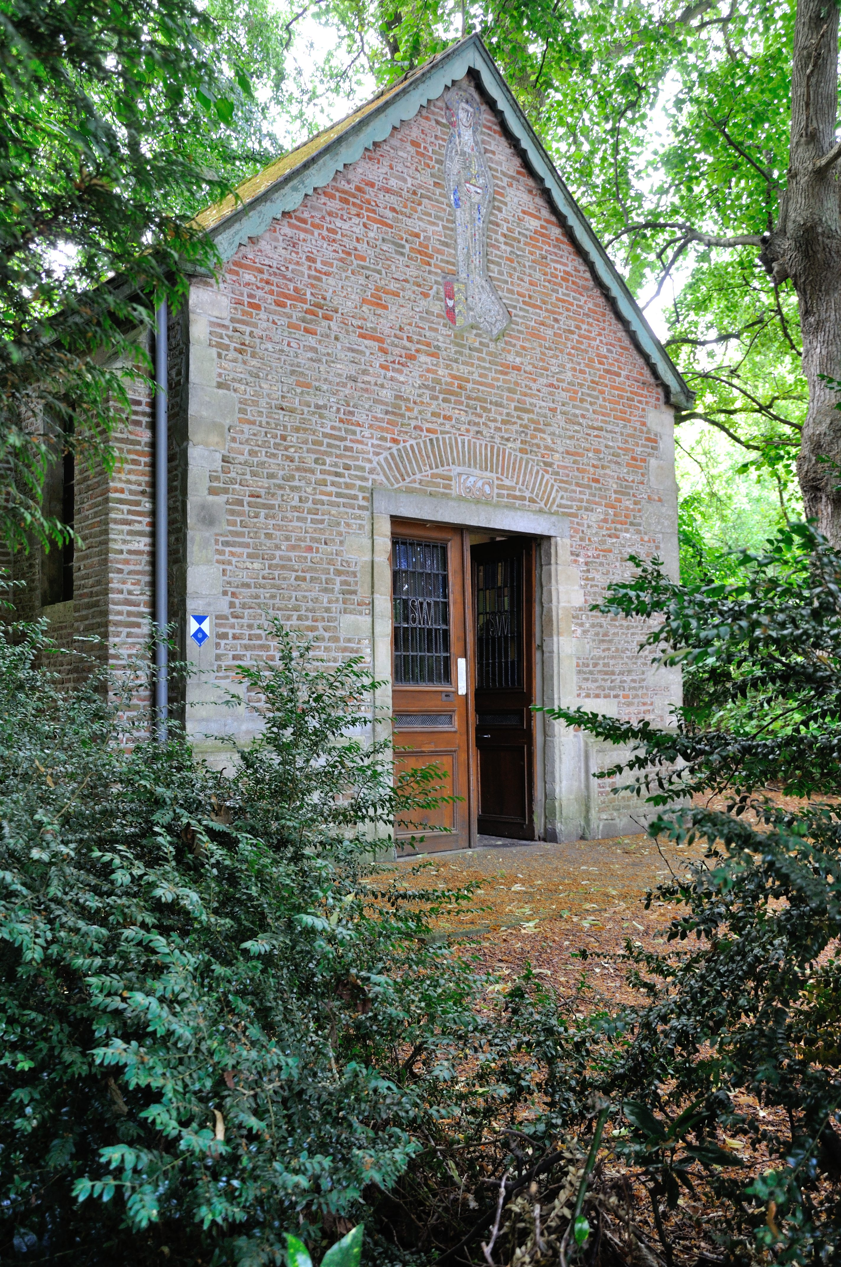 Dilbeek, Wivina chapel